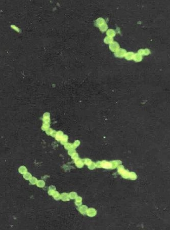 Stained microphotograph of Thiomargarita namibiensis bacteria.